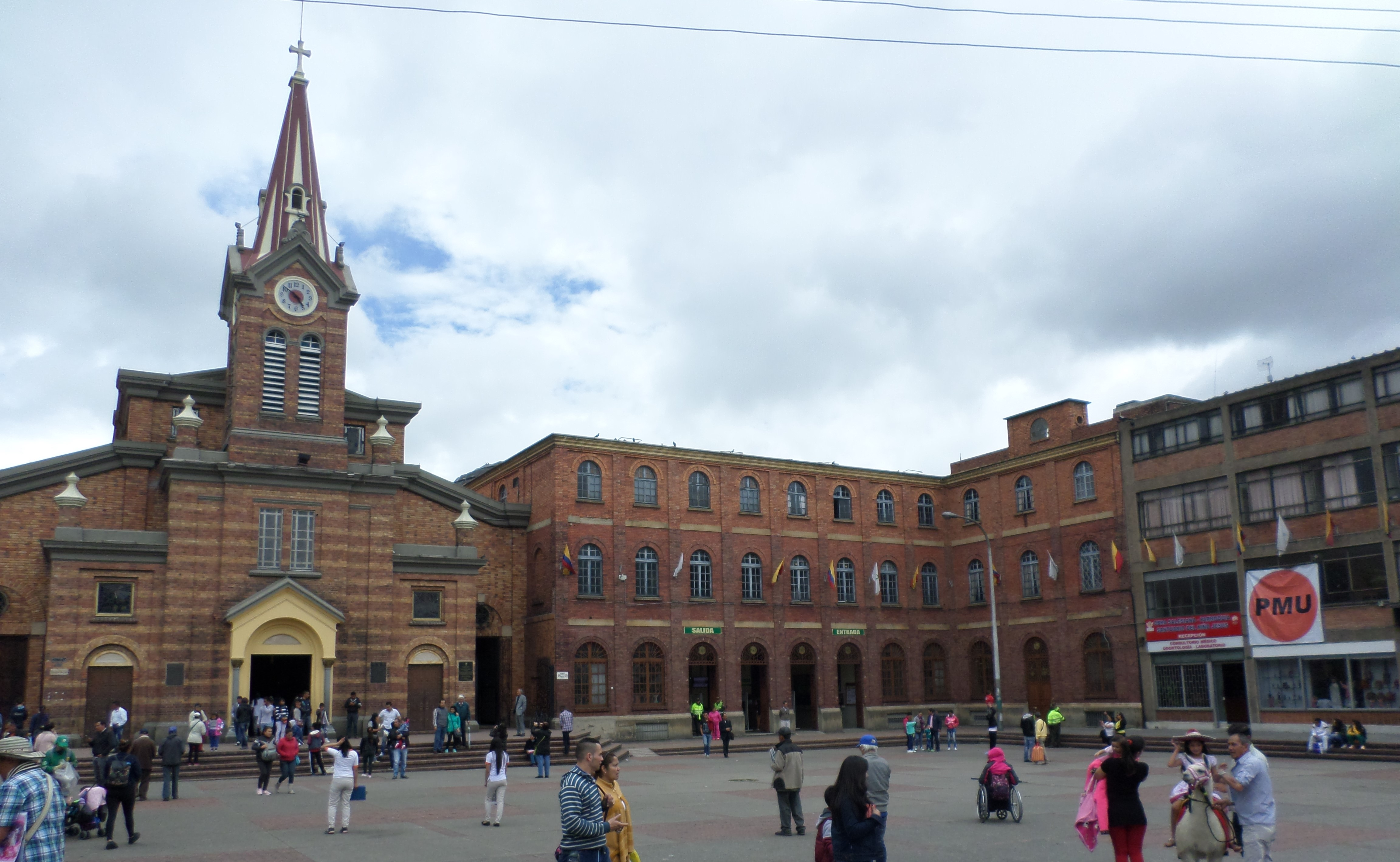 oooooooooooooooooooooooooooo